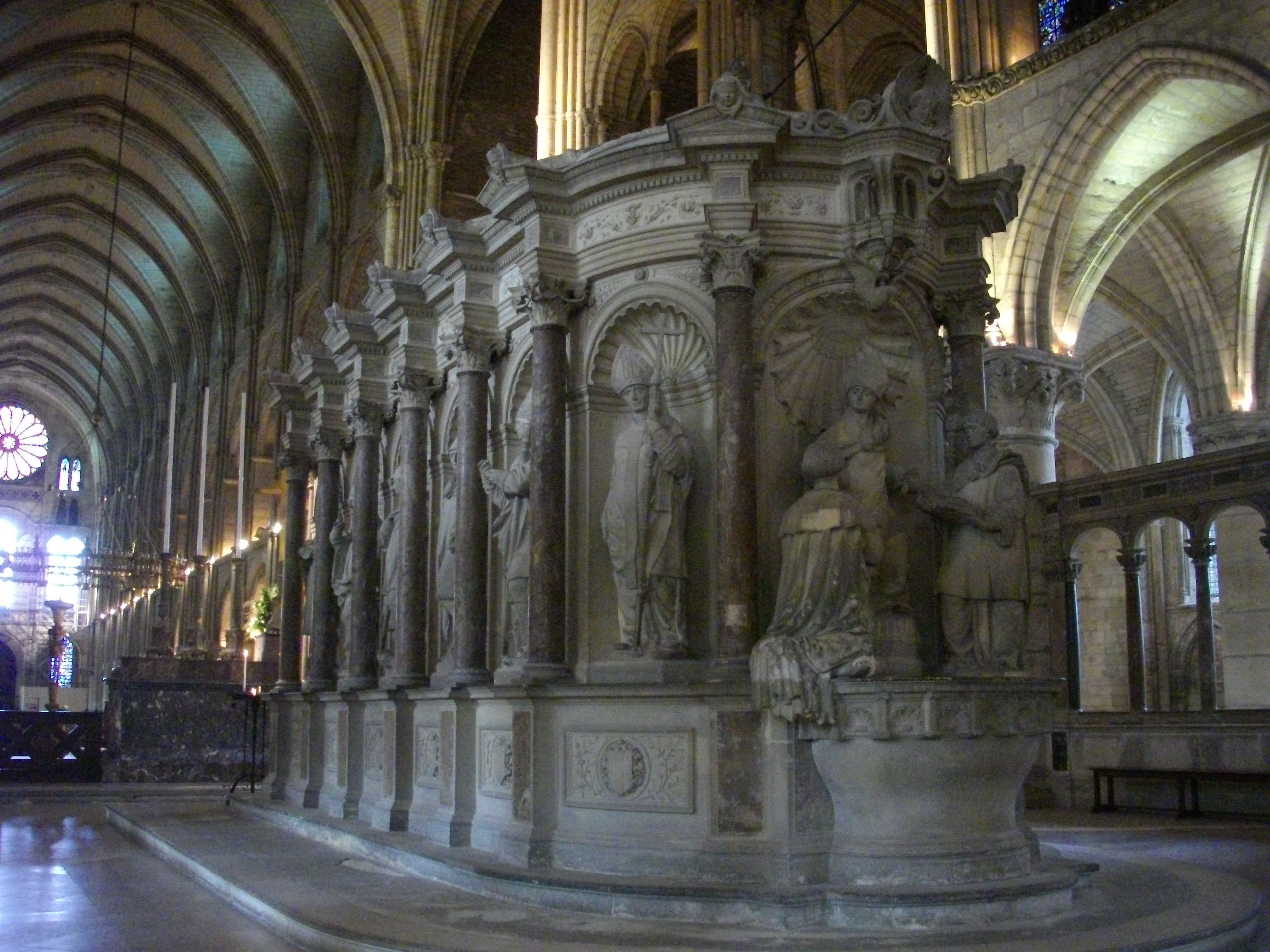 Saint Remigius tomb in Saint Remigius basilic of Reims (Marne, France) .